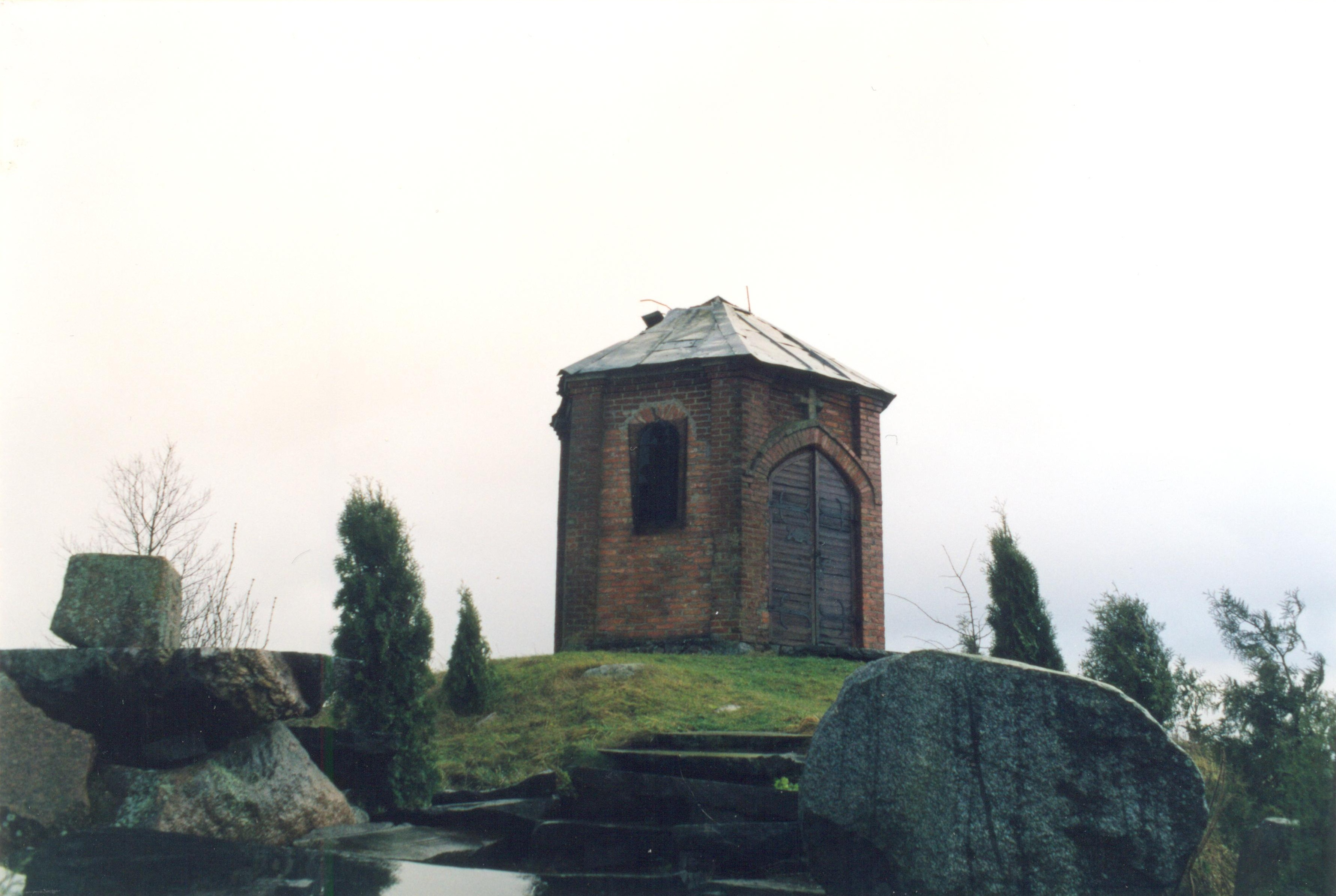 Žvainiai chapel, Kretinga district, LithuaniaLietuvių: Gaidžio koplyčia, Žvainių k., Kretingos rajonas, Lietuva